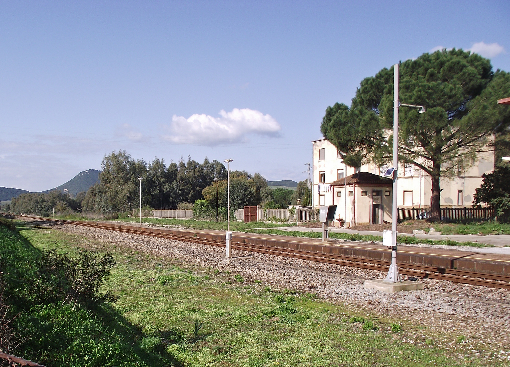 The track of the Cixerri halt heading to Carbonia, Sardinia, Italy